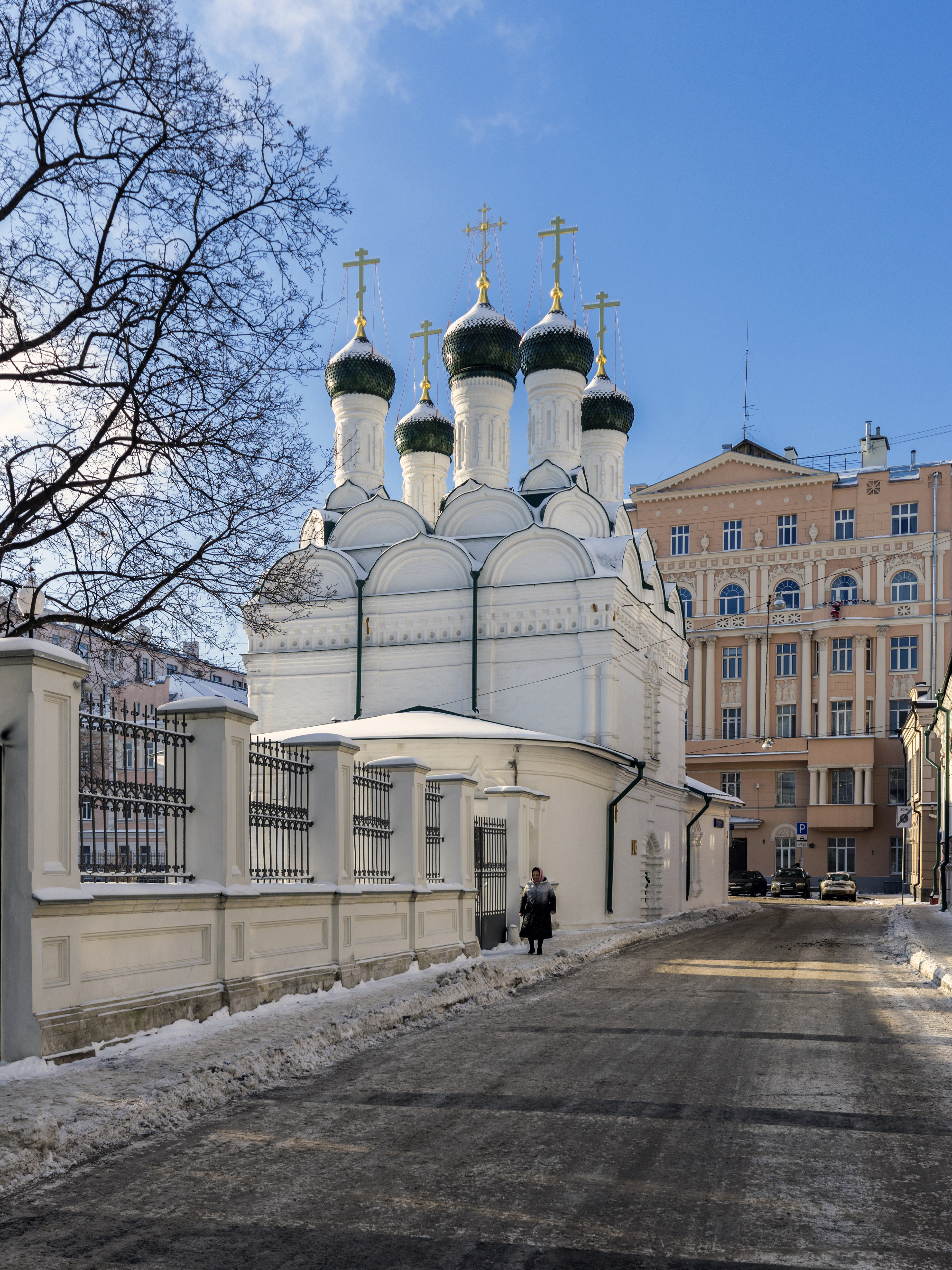 Church of Saint Michael and Saint Fyodor, Martyrs of Chernigov, Moscow